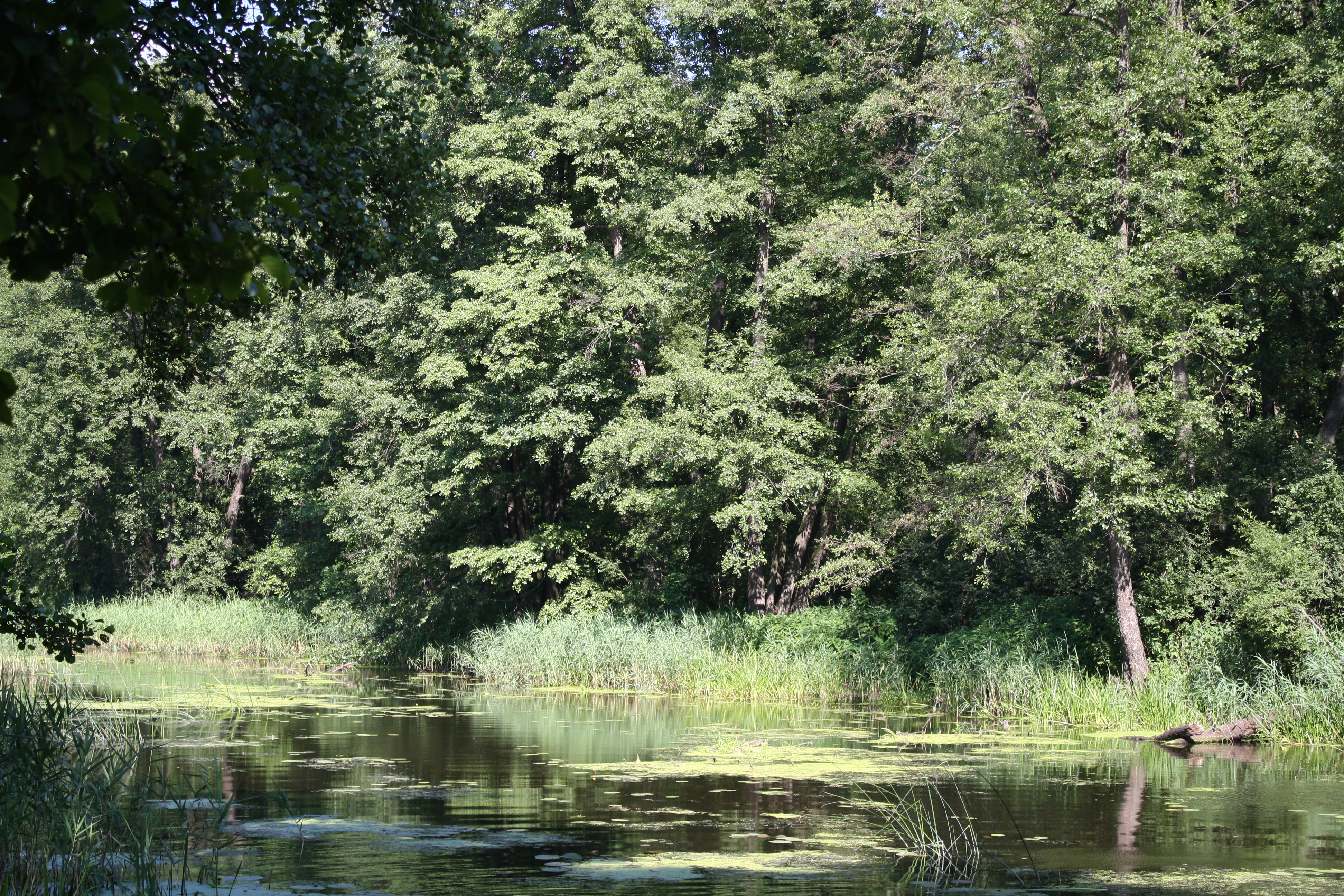 Backwater in Voronezh Biosphere Reserve.jpg This is an image of the Biosphere Reserve: Voronezhskiy